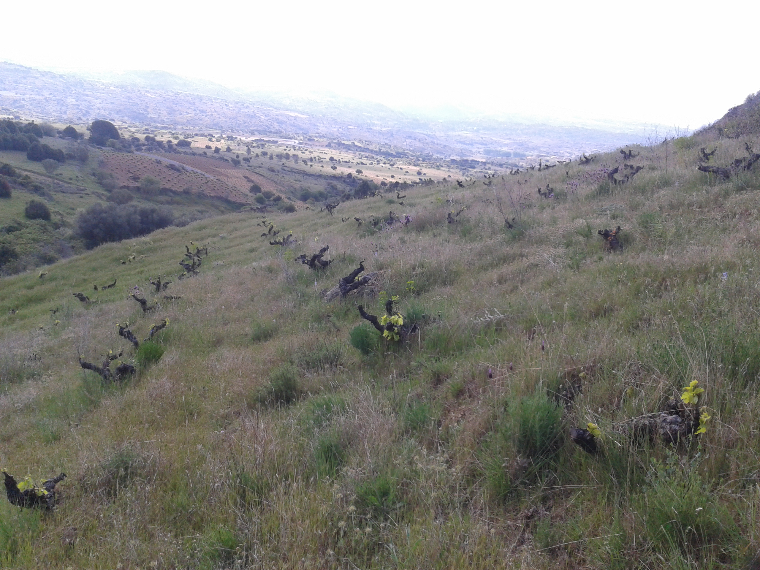 This is an old vine Garnacha vineyard near the town of Cebreros in the Sierra de Gredos mountain range in central Spain, at about 800 m above sea level